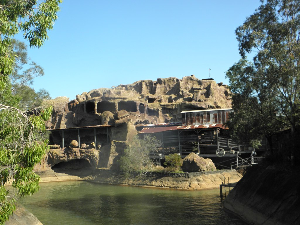 The Eureka Mountain Mine Ride roller coaster building. The ride is now standing but not operating (SBNO).